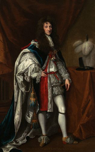 Portrait of Aubrey de Vere, 20th Earl of Oxford (1627-1703)